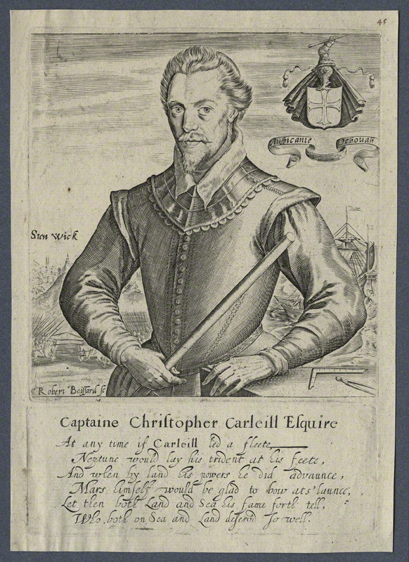 Christopher Carleill by Robert Boissard, after Unknown artist line engraving, circa 1593-1603